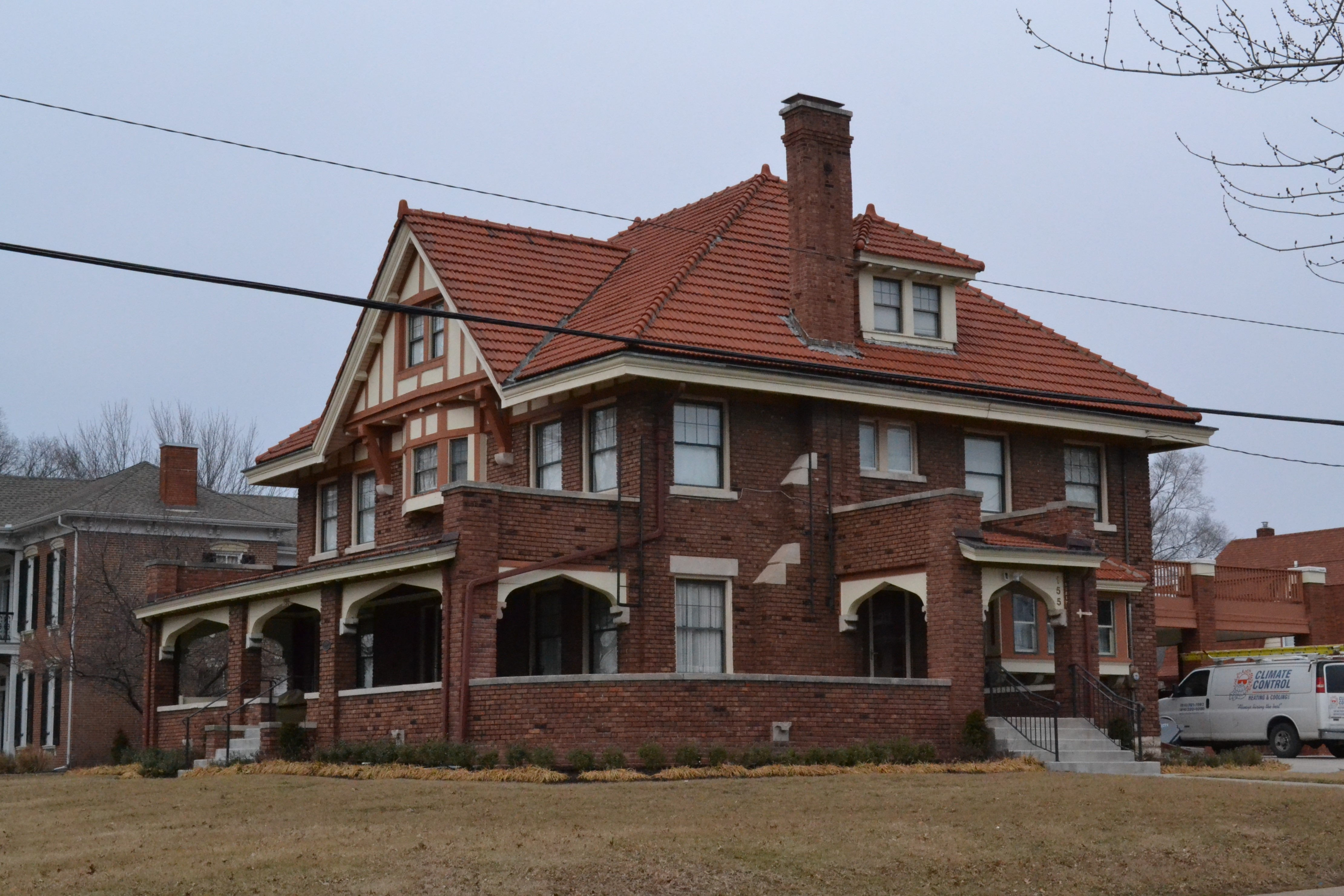 The Hunt-Clarke House in Liberty, MO. A contributing building to the Arthur-Leonard Historic District